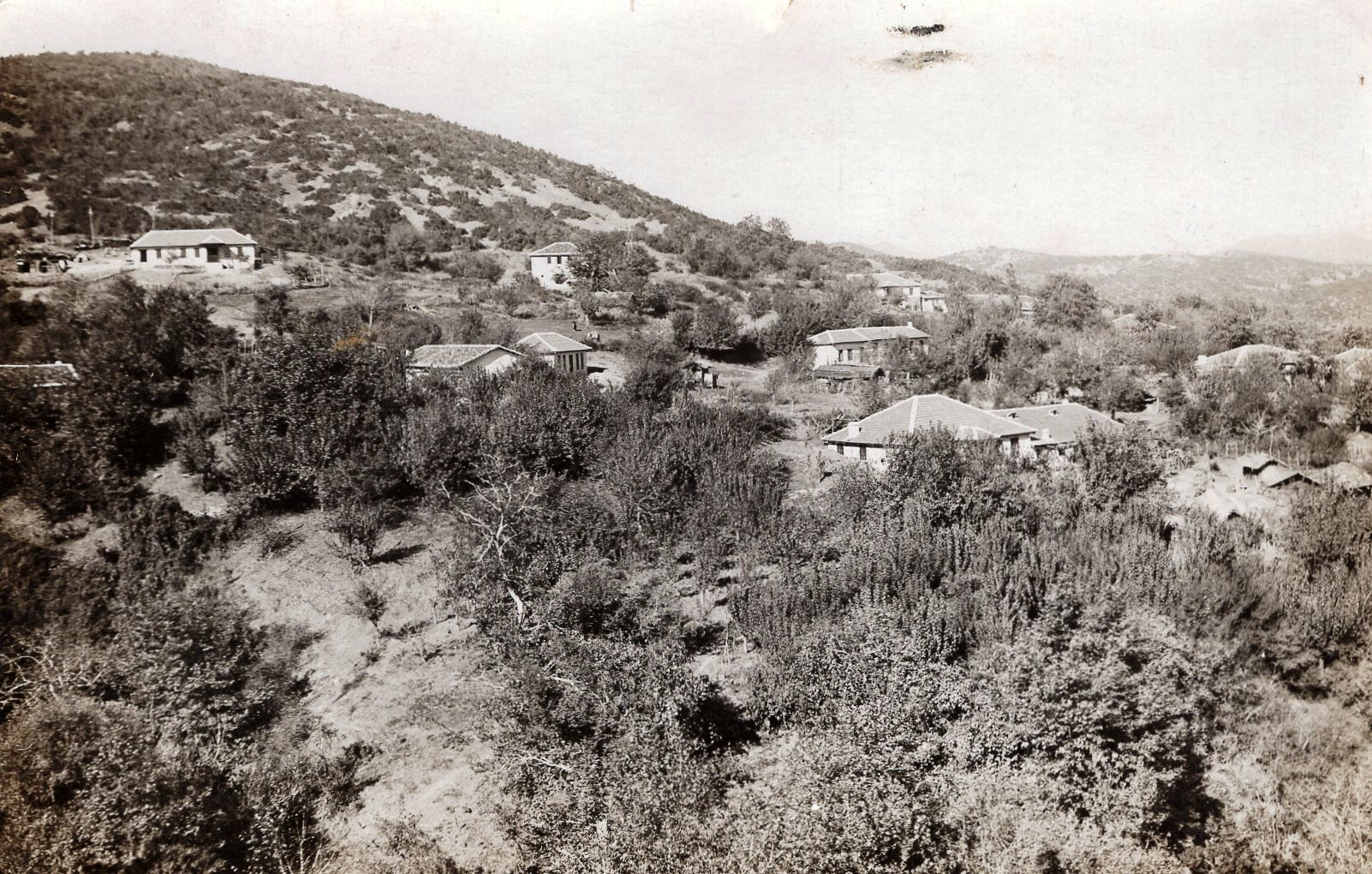 Rabrovo, village in Valandovo Municipality. Photo from 1931 This media file is produced by Wikipedian in Residence in Category:Wikipedian in Residence at DARM in 2016.